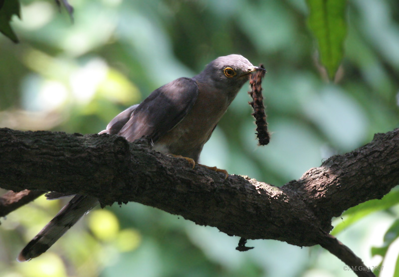 Common Hawk Cuckoo Cuculus varius (syn. Hierococcyx varius) in Kolkata, West Bengal, India.